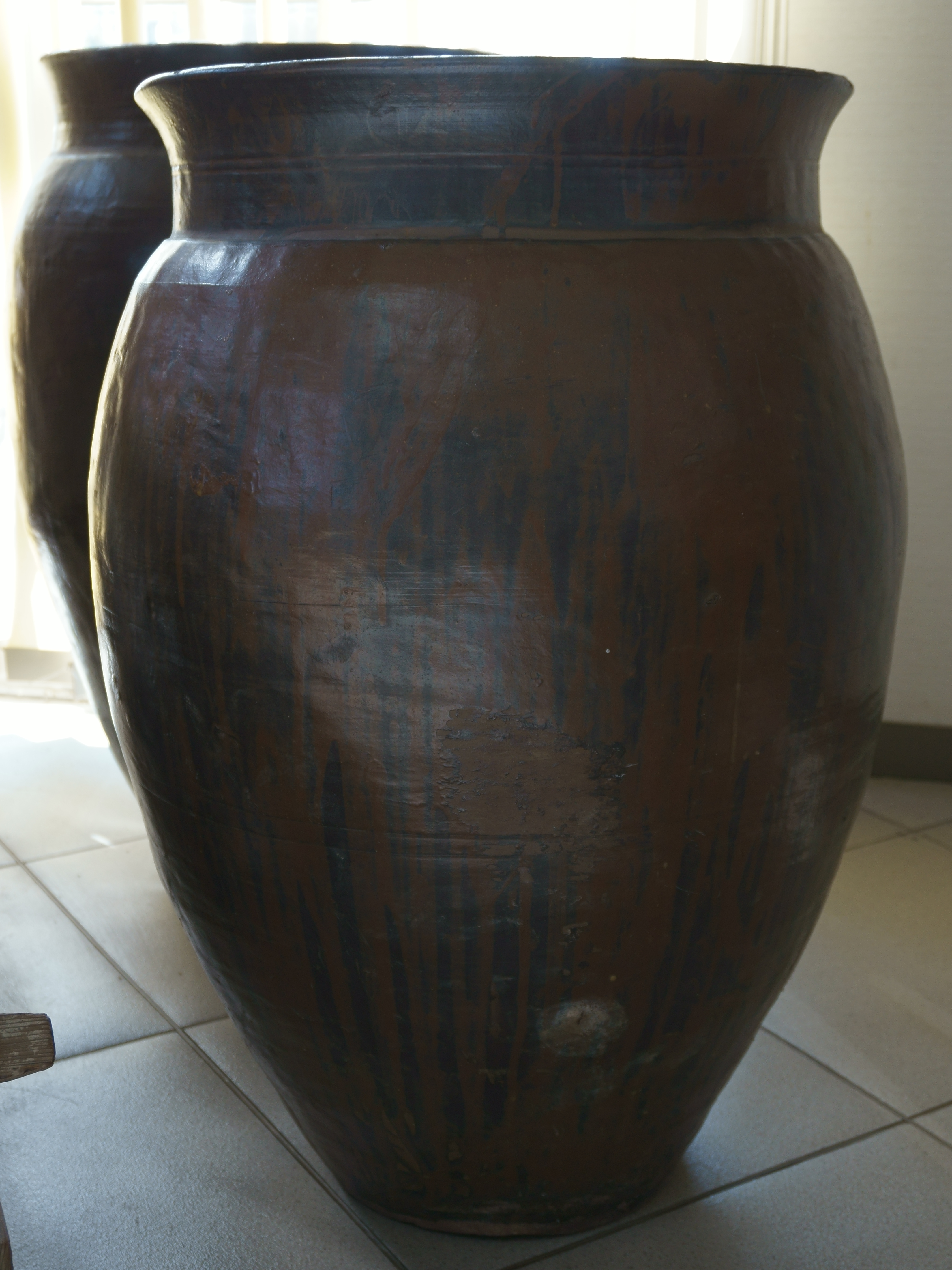 Earthenware tall jars, displayed at Fureai Kantaku-kan, in Shiroishi, Saga prefecture.